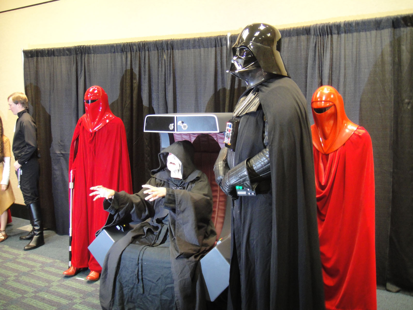 Star Wars Celebration V - 501st room - the Emperor, Royal Guards, and Darth Vader